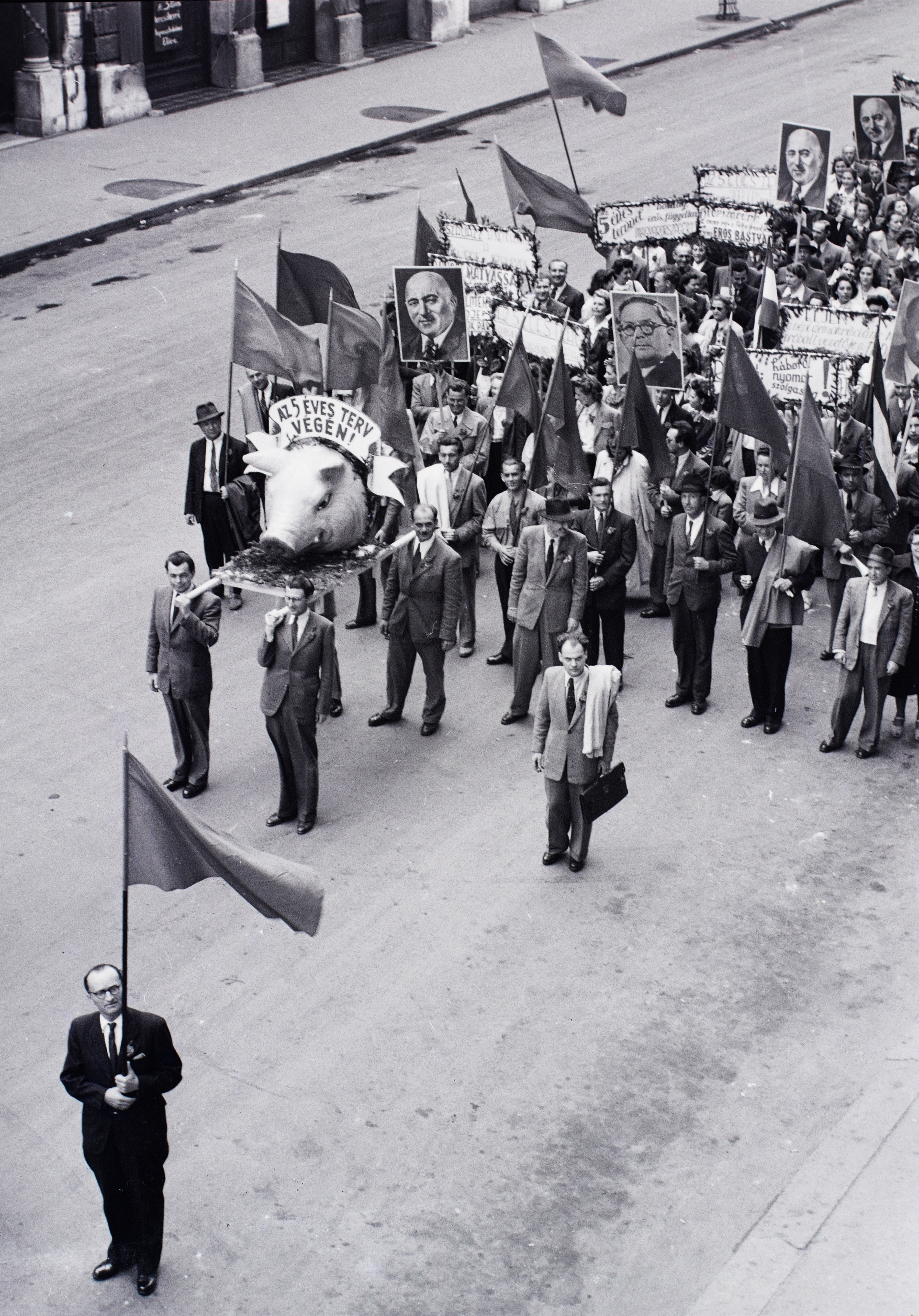 Tags: 1st of May parade, march, personality cult, Mátyás Rákosi portrayal